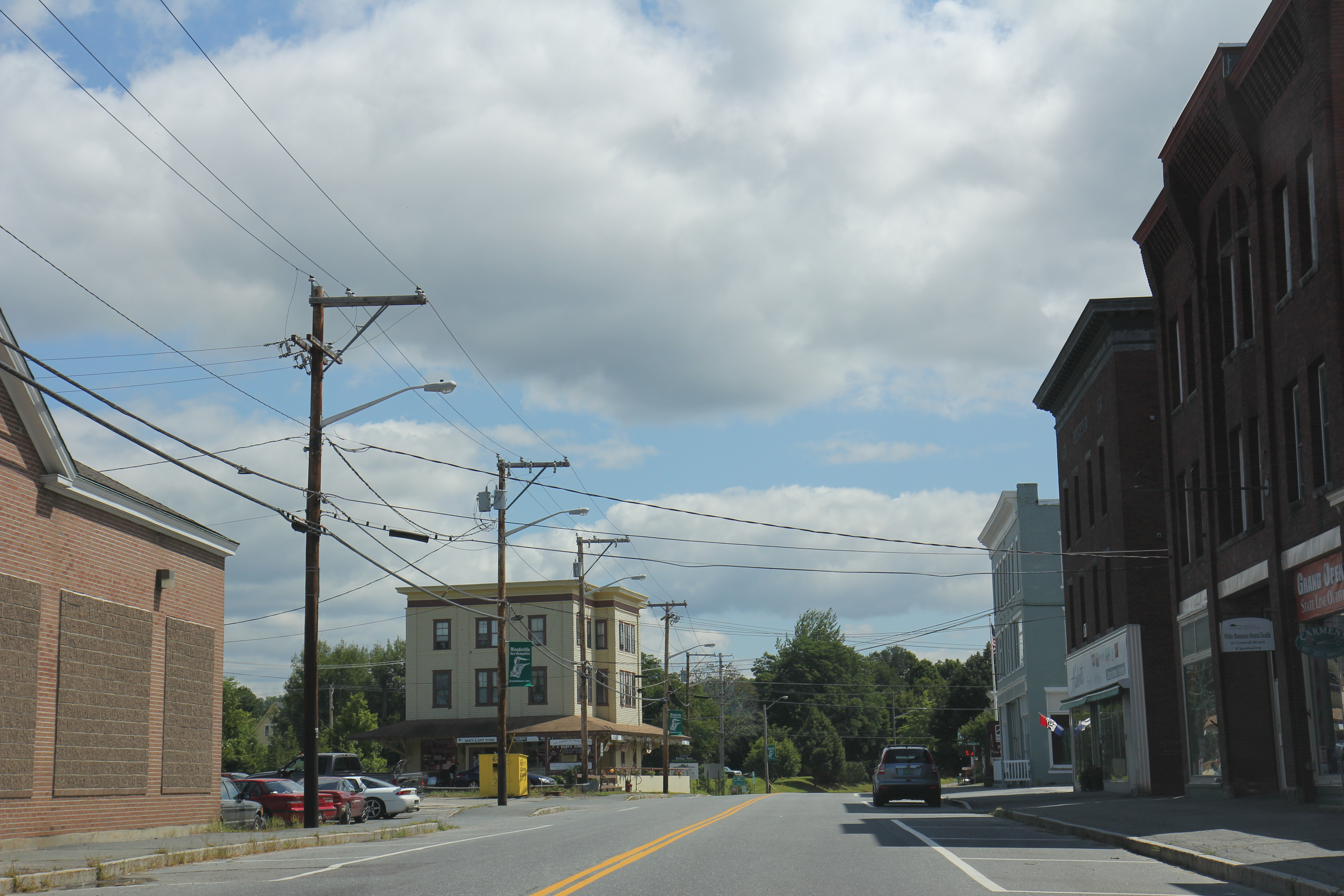 Woodsville, New Hampshire on US302